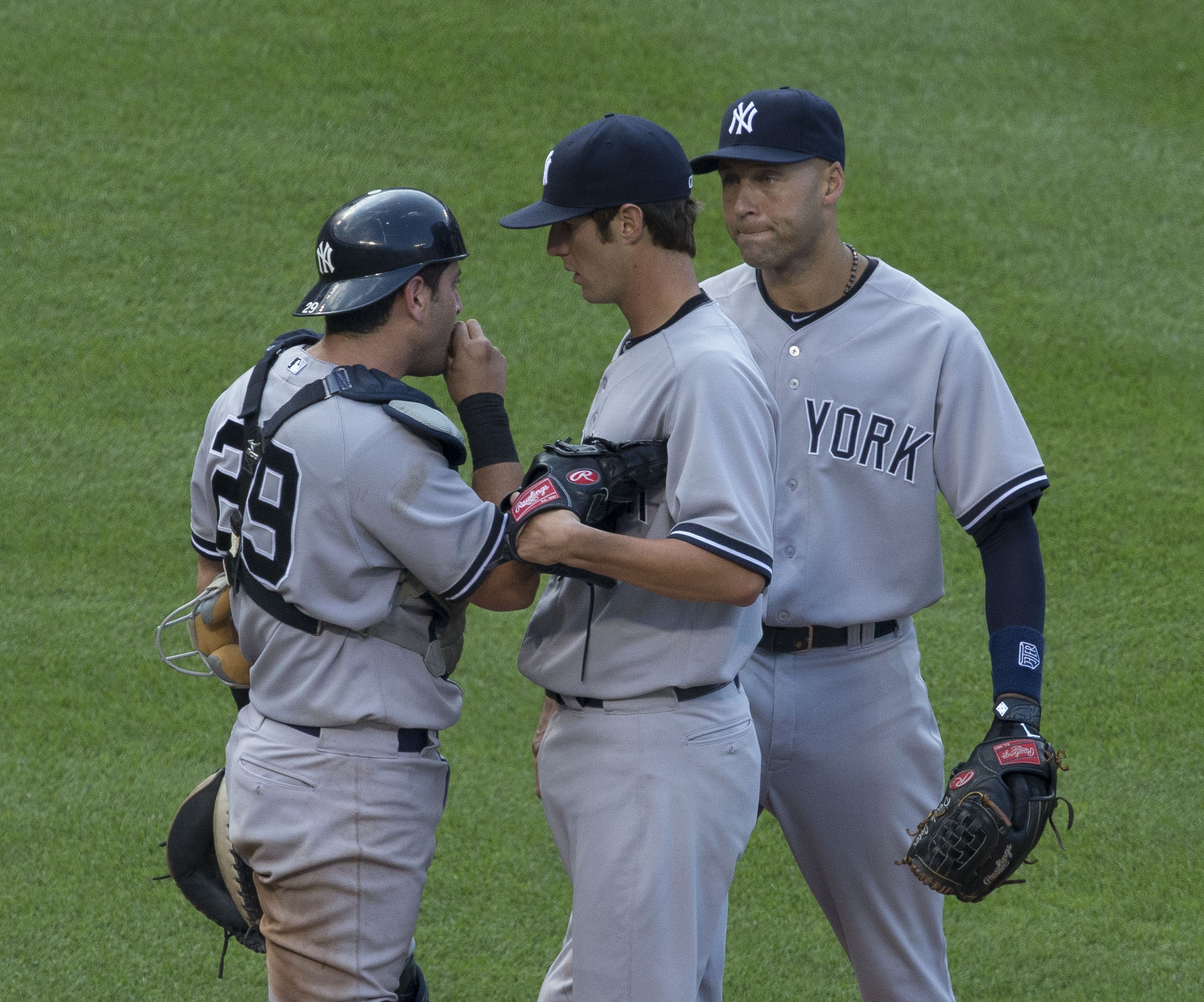 Yankees at Orioles July 12, 2014